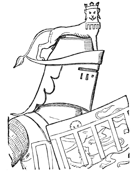 Fig. 618.—Crest of Thomas de Mowbray, Earl of Nottingham, and Earl Marshal. (From a drawing of his seal, 1389: MS Cott., Julius, C. vii. (Thomas de Mowbray, 1st Duke of Norfolk, 1st Earl of Nottingham, 3rd Earl of Norfolk, 6th Baron Mowbray, 7th Baron Segrave, KG, Earl Marshal (22 March 1366 – 22 September 1399) ))